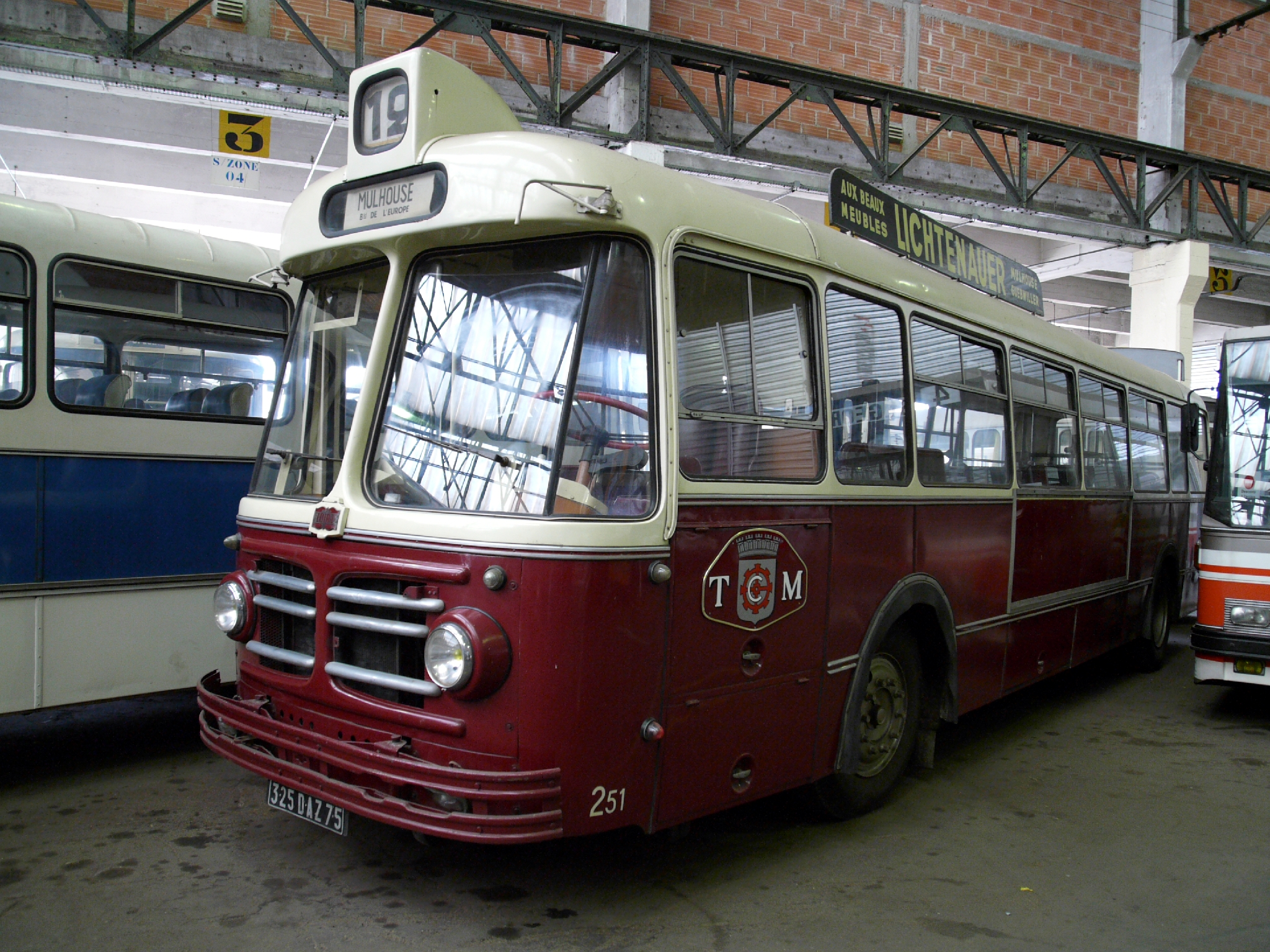 1954 Floirat Z10 from TCM, urban transportation of Mulhouse, specimen preserved by AMTUIR